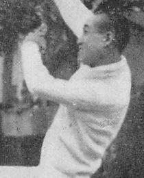 a tennis player from Japan,佐藤次郎（Jiro Sato）